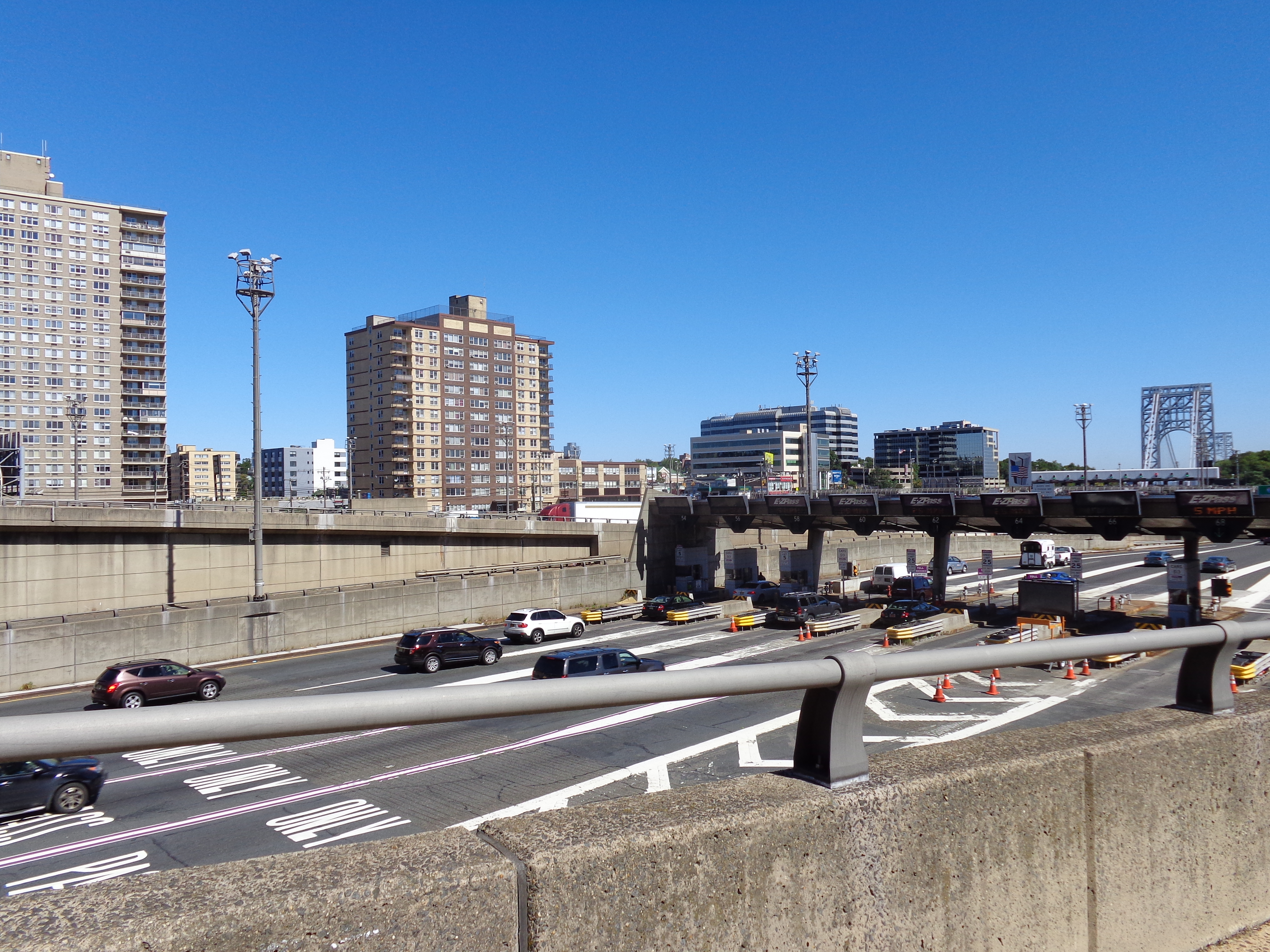 View looking NE over highways from George Washington Bridge Plaza South Fort Lee